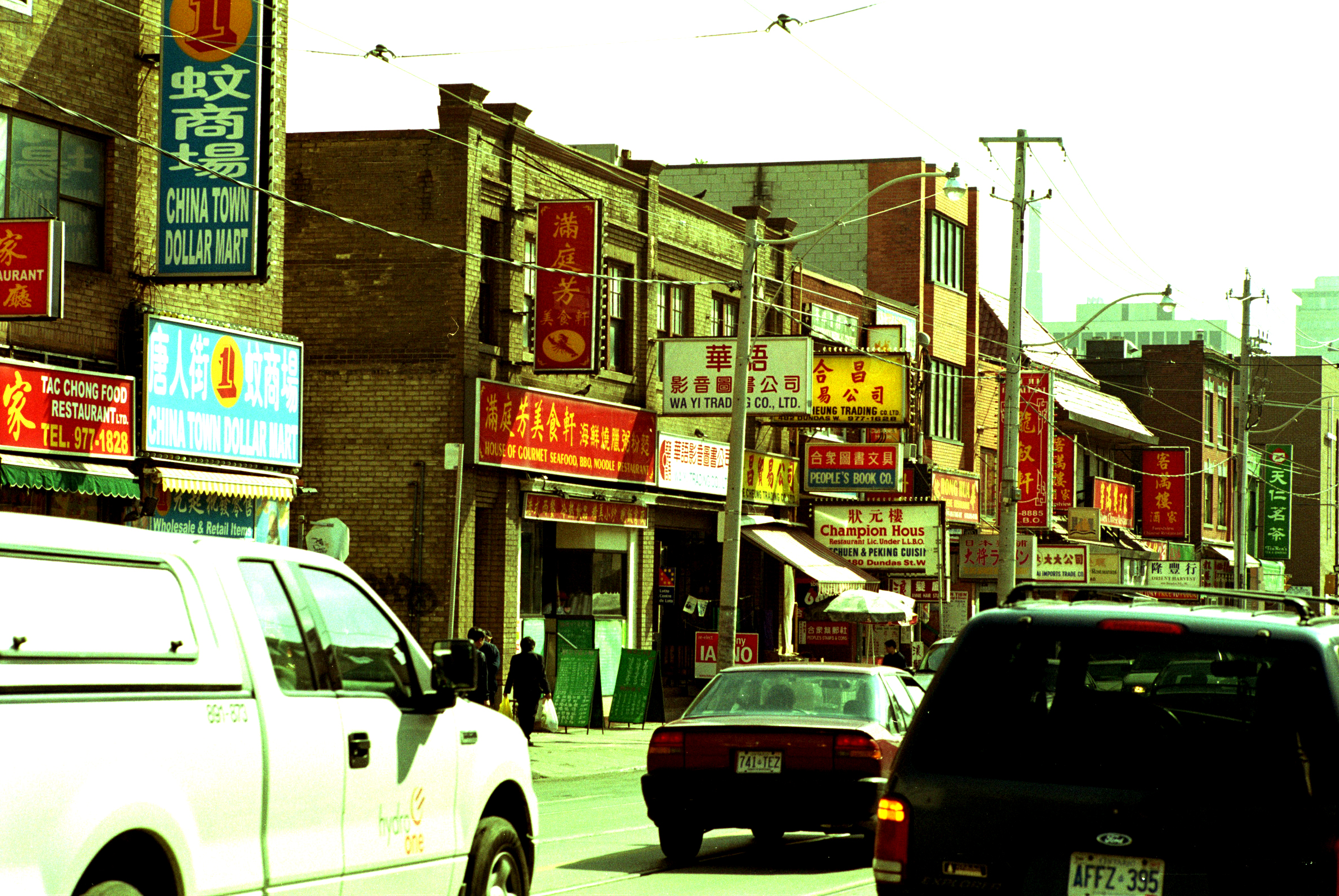 China town in Dundas Street West, Toronto